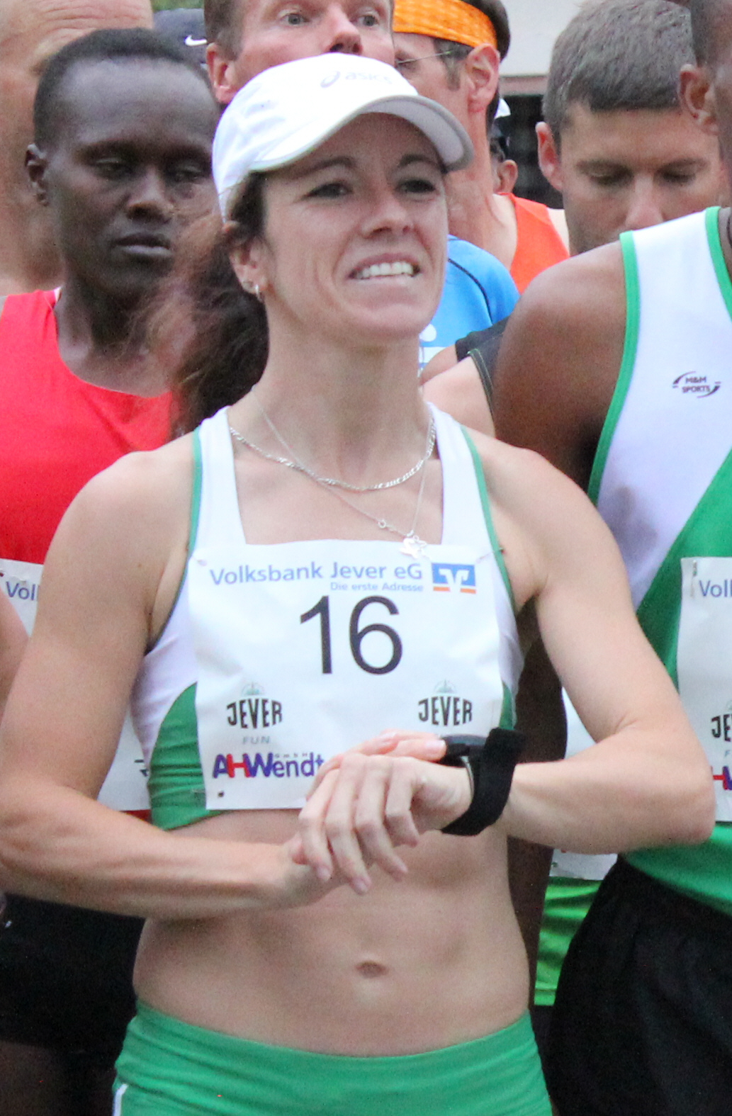 Silke Optekamp 2014 in Schortens